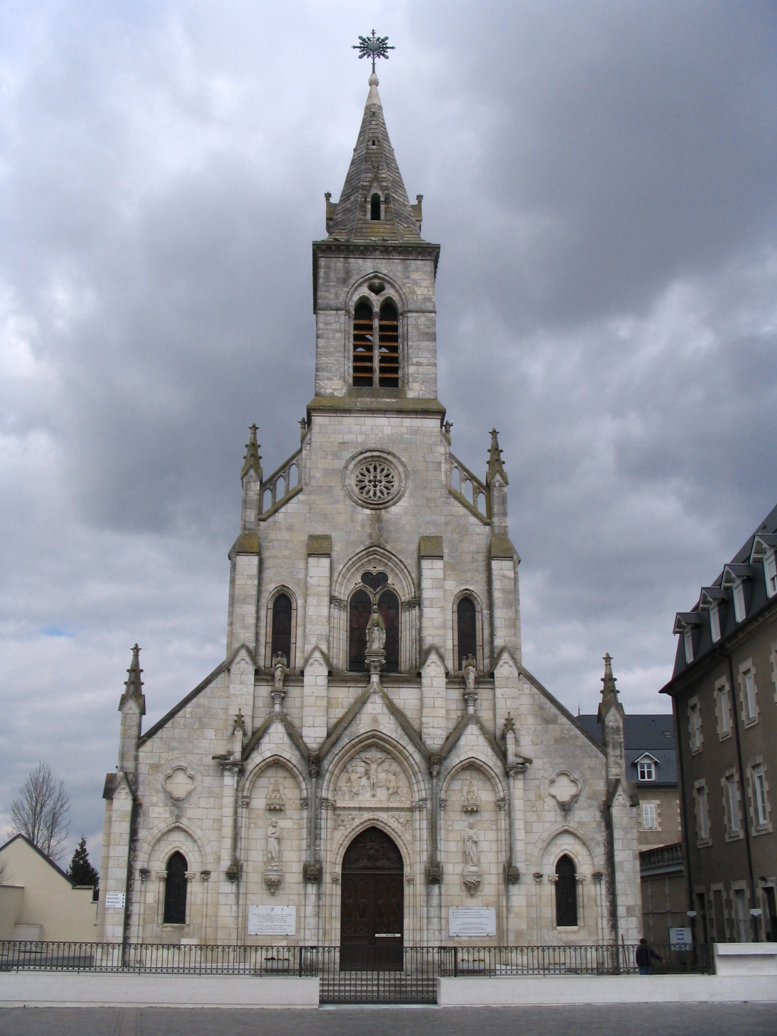 Notre-Dame du Sacré-Coeur basilica, in Issoudun, Indre, France.